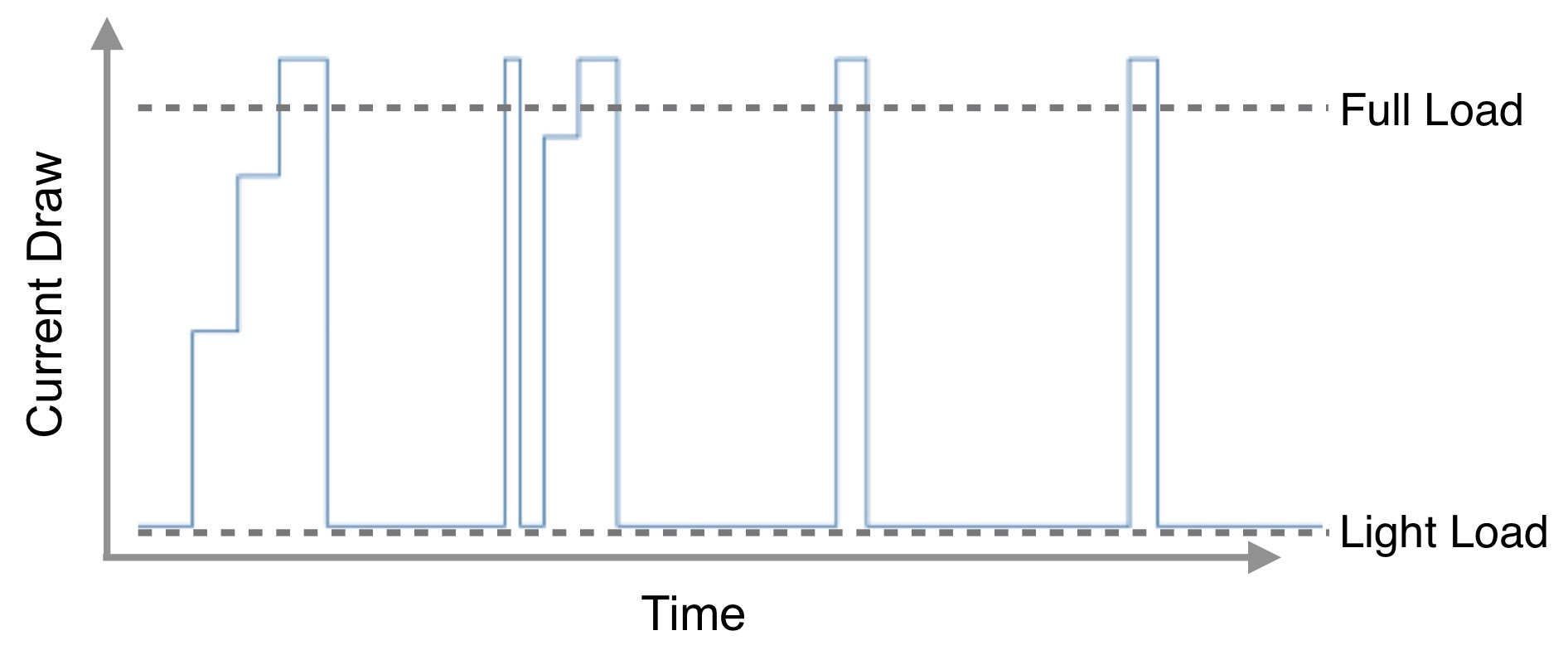 Current draw profile of load utilizing power saving modes (i.e. Pulsed Applications) showing light and full load status